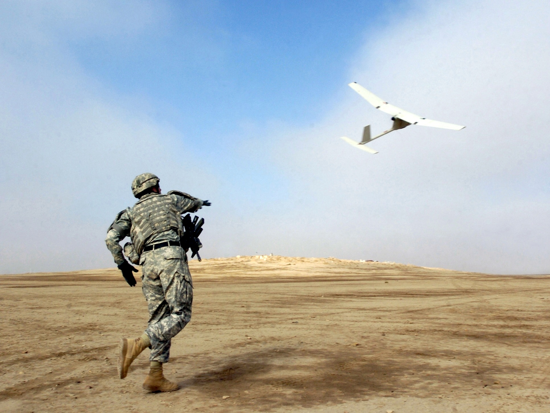 Up, Up and Away Photo by Sgt. 1st Class Michael Guillory November 22, 2006 ...and away it goes, on an aerial reconnaissance mission for Iraqi and U.S. Soldiers on the ground. (cropped original photo) info